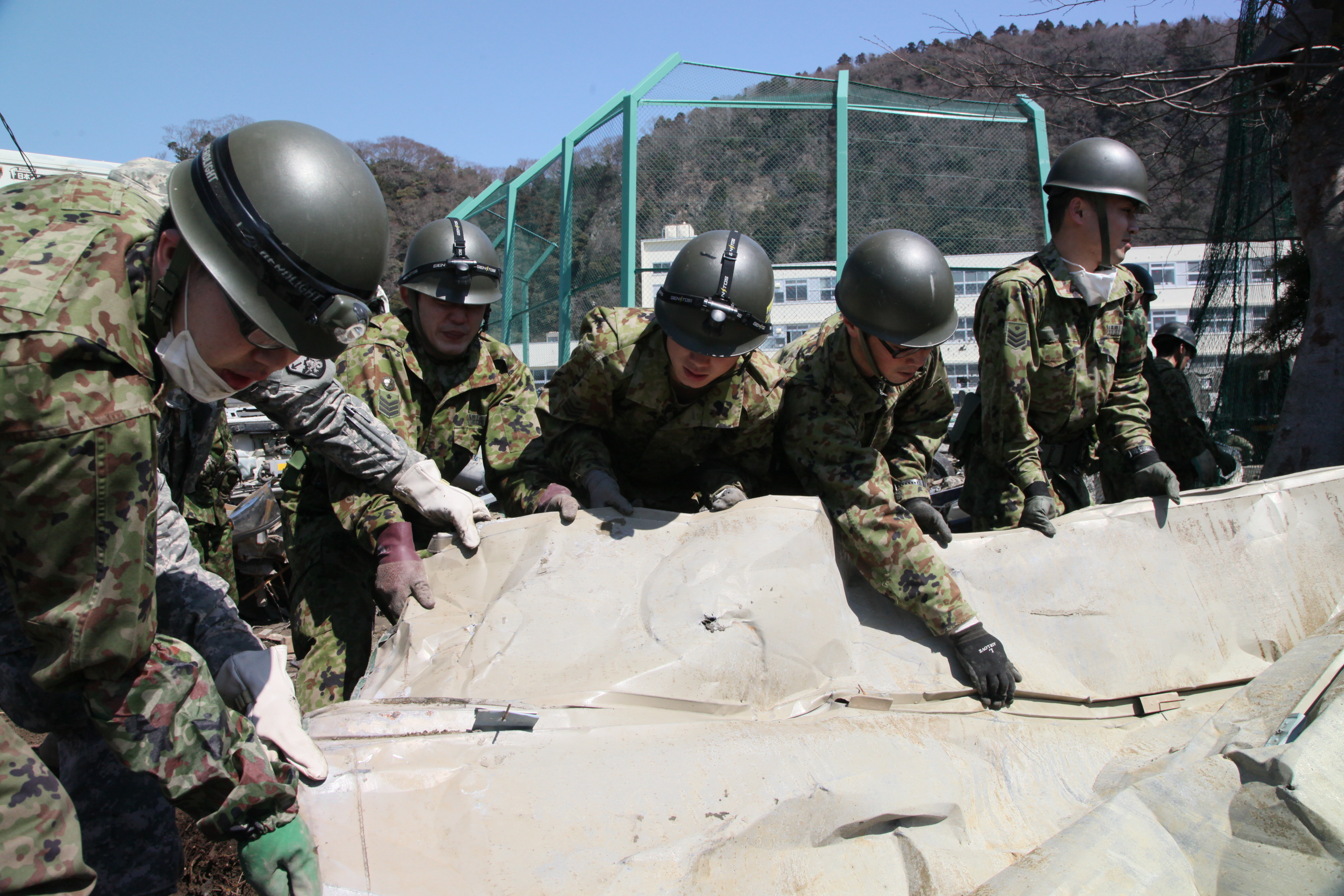 Members of the Japan Ground Self-Defense Force (JGSDF) with 5th Brigade work to clear debris from the schoolyard of the Minato Elementary School in Ishinomaki, Miyagi prefecture, Japan, April 1, 2011. U.S. Service members were in the area to participate in Operation Tomodachi and offer aid to the JGSDF in the aftermath of a tsunami that struck the Sendai region.